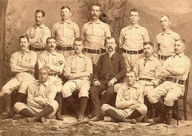 1888 Syracuse Stars baseball teamTop row, L-R: Moses Fleetwood Walker, Ed Dundon, Mox McQuery, Bones Ely, Bill HigginsMiddle row, L-R: Ollie Beard, Con Murphy, Rasty Wright, Charlie Hackett, Joe Battin, Ed MarsBottom row, L-R: Robert Higgins, Al Schellhase